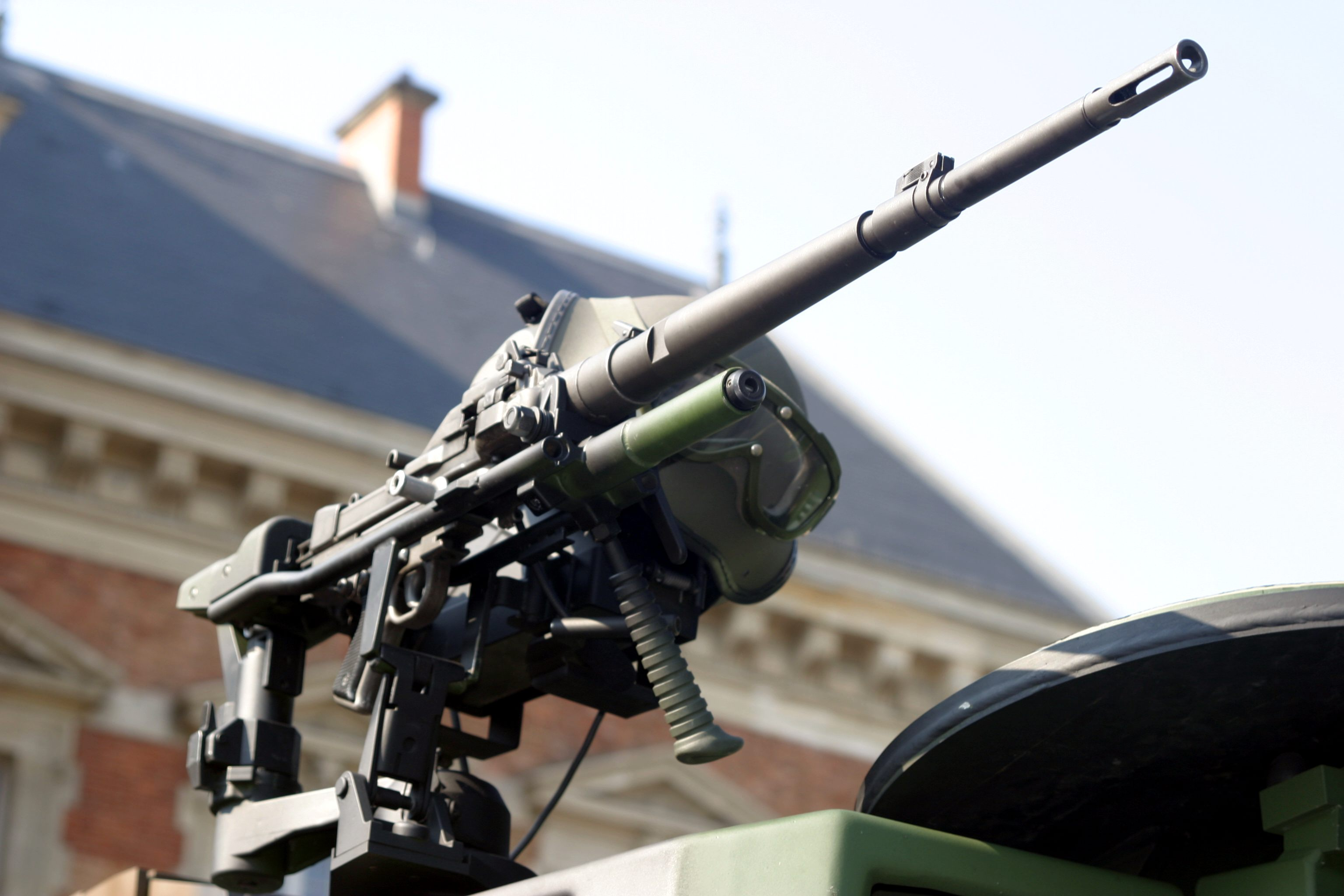 Vehicle-mounted AA-52 featured on a Leclerc main battle tank. On public display during Bastille day 2006 (14th of July).